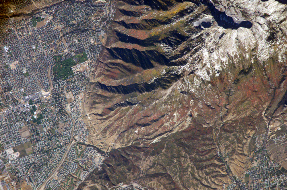 Astronaut photo of the Wasatch Range, Utah, USA. Draper, Utah is visible along the western side of the mountains and Lone Peak casts its shadow in the upper right.